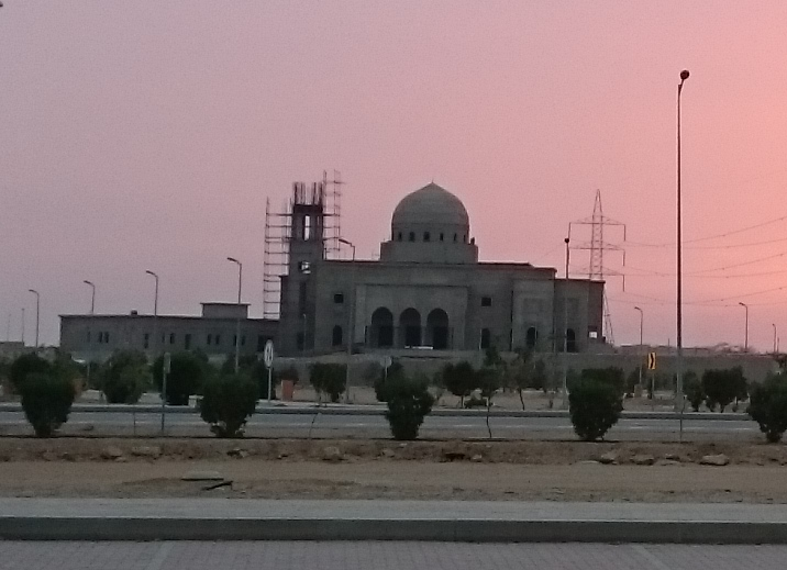 Grand Masjid being built in Bahria Town Karachi